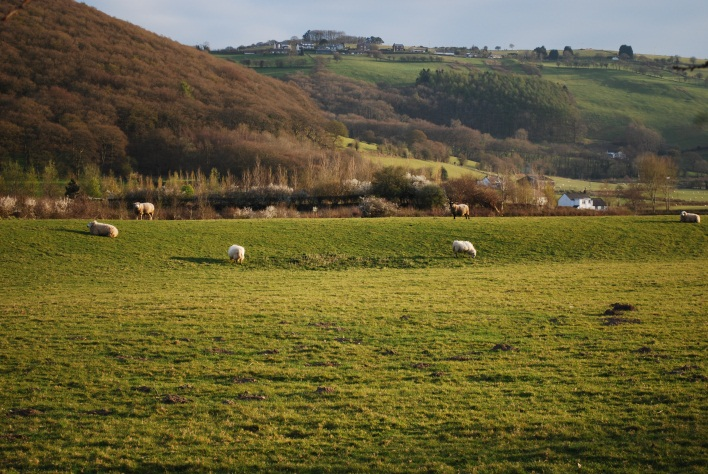 An example of terraces on the floodplain of Afon Rheidol.